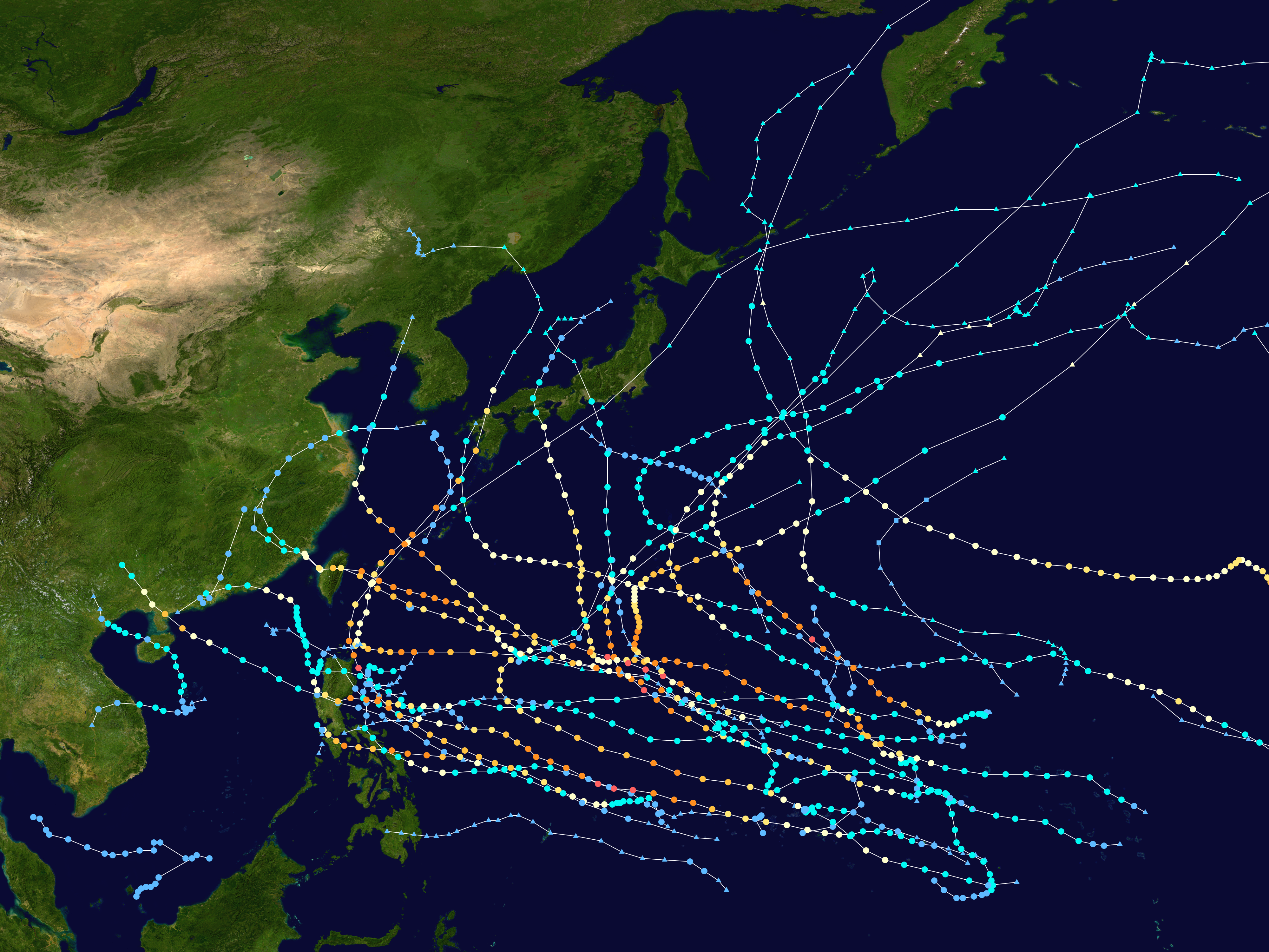 This map shows the tracks of all tropical cyclones in the 2015 Pacific typhoon season. The points show the location of each storm at 6-hour intervals. The colour represents the storm's maximum sustained wind speeds as classified in the Saffir-Simpson Hurricane Scale (see below), and the shape of the data points represent the type of the storm. Saffir–Simpson scale Tropical depression≤38 mph≤62 km/h Category 3111–129 mph178–208 km/h Tropical storm39–73 mph63–118 km/h Category 4130–156 mph209–251 km/h Category 174–95 mph119–153 km/h Category 5≥157 mph≥252 km/h Category 296–110 mph154–177 km/h Unknown Storm type Tropical cyclone Subtropical cyclone Extratropical cyclone / Remnant low / Tropical disturbance / Monsoon depression